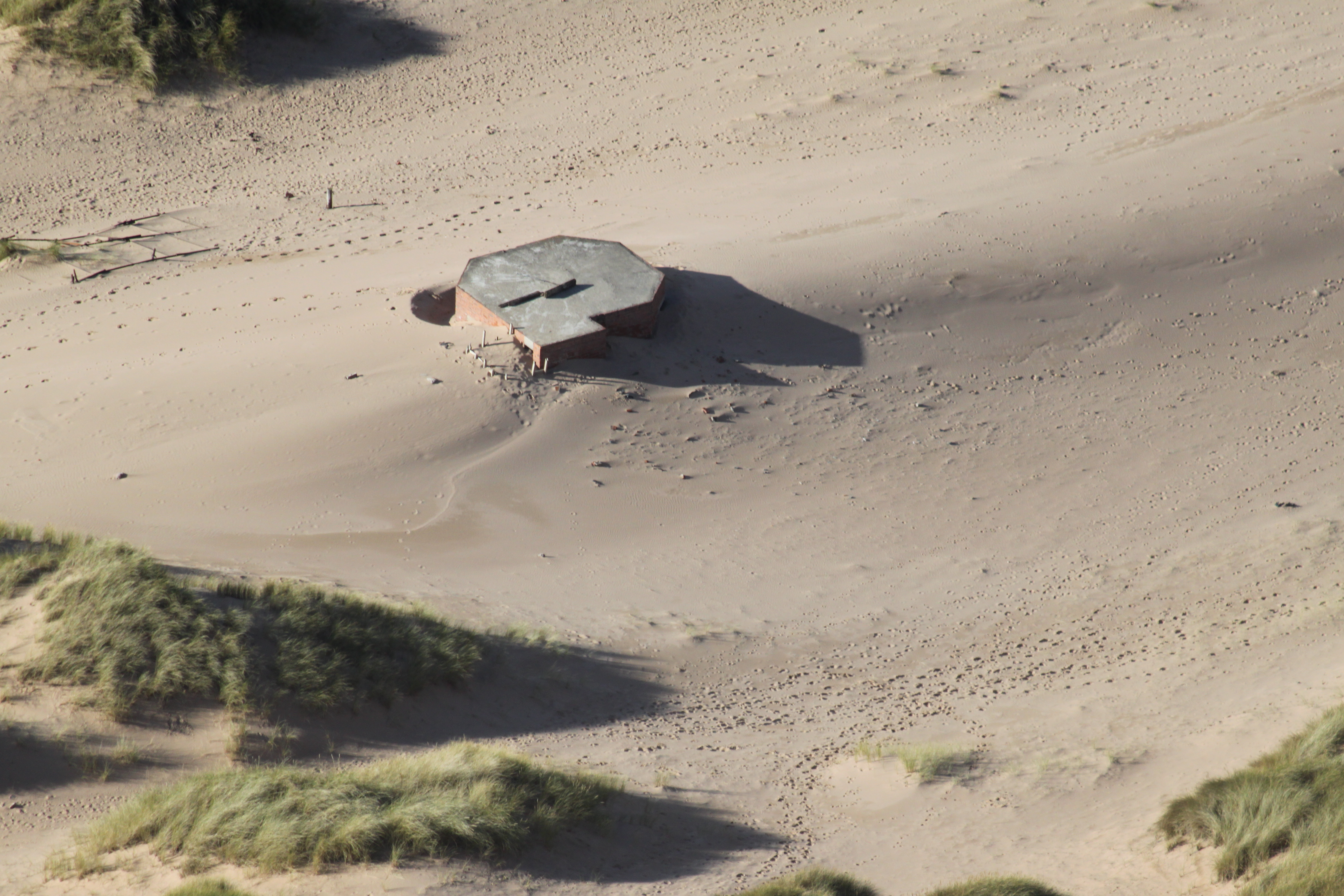 taken by cabro aviation, aerial view of pillbox to south of Newburgh